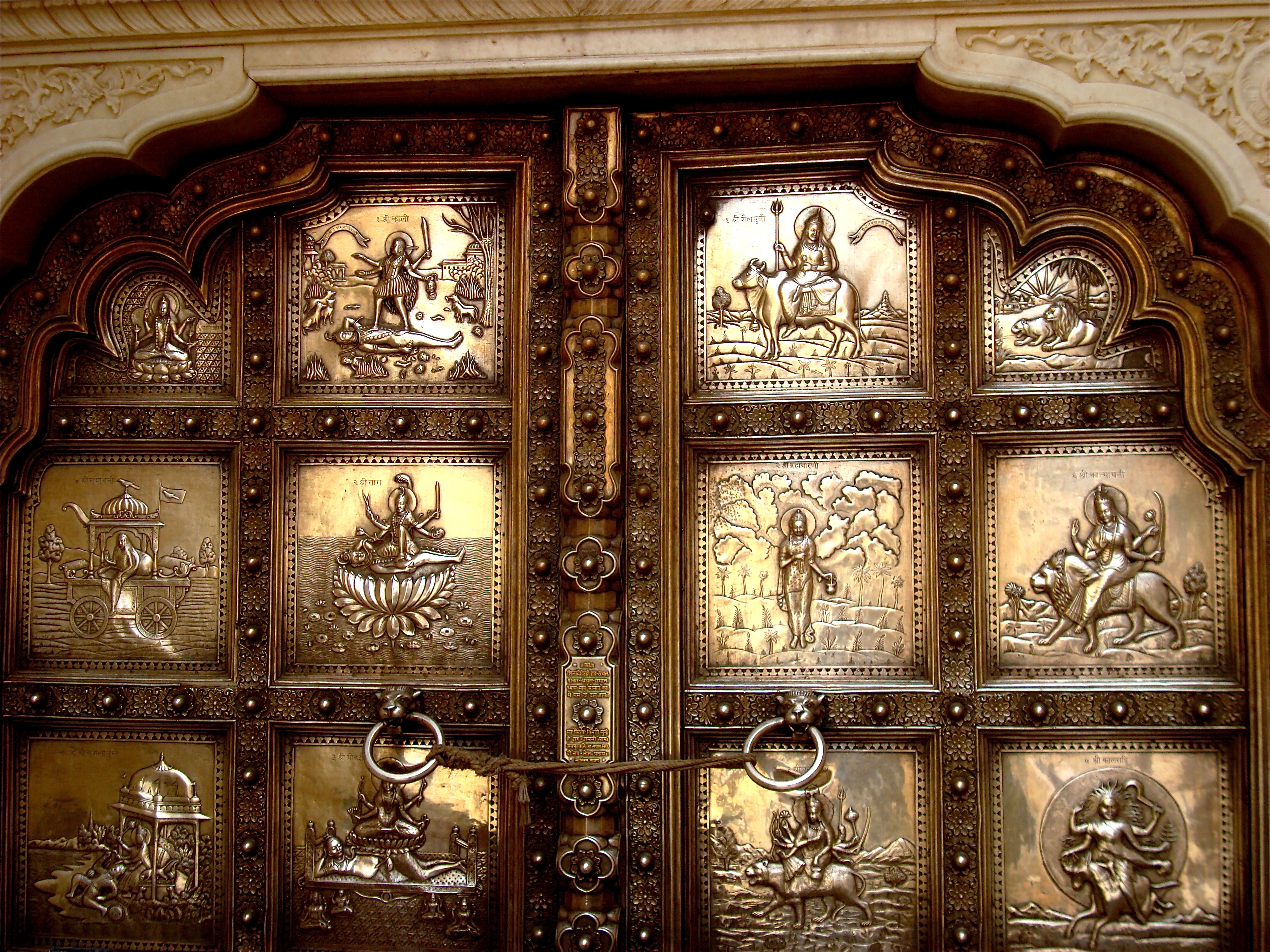 Mahavidyas on left and Navadurgas on right, Jaipur.